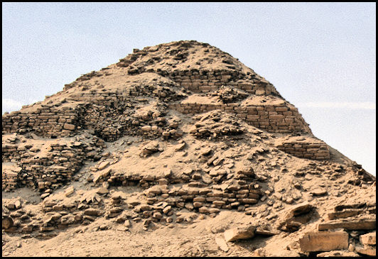 True pyramid of Neferirkare Kakai at Abusir with its internal stepped structure.